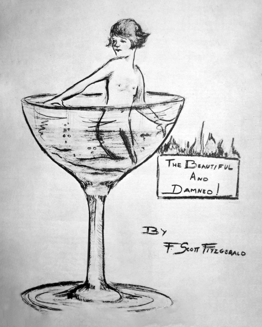 Sketch by Zelda Sayre Fitzgerald for The Beautiful and Damned drawn in 1921. She died in 1948.